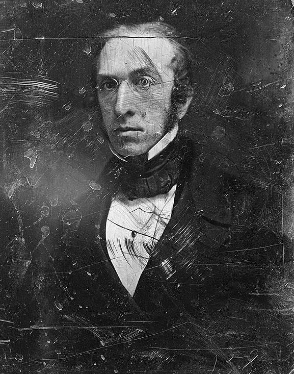 Massachusetts politician Robert Charles Winthrop.